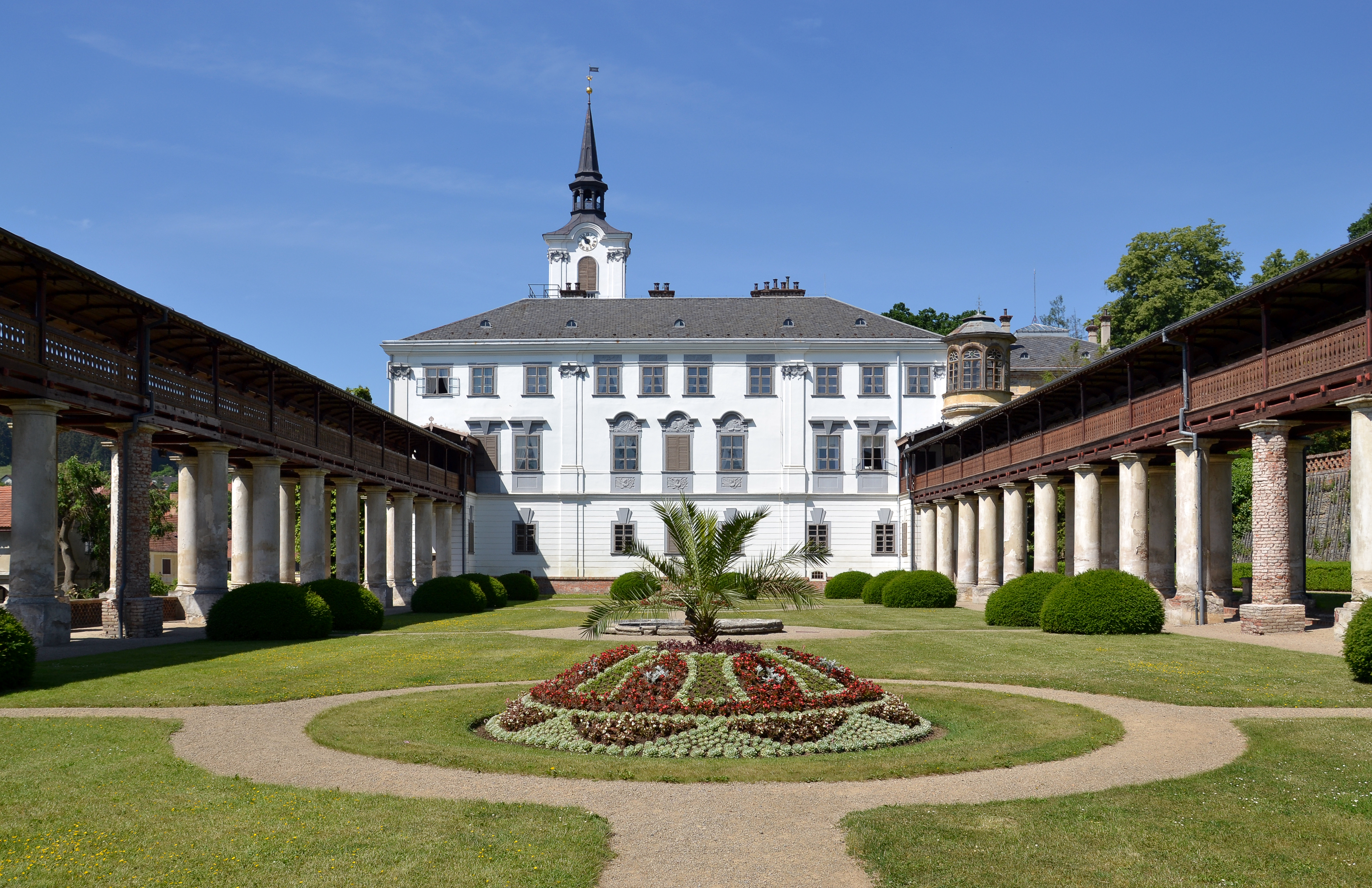 Lysice (Lissitz), Moravia - castle